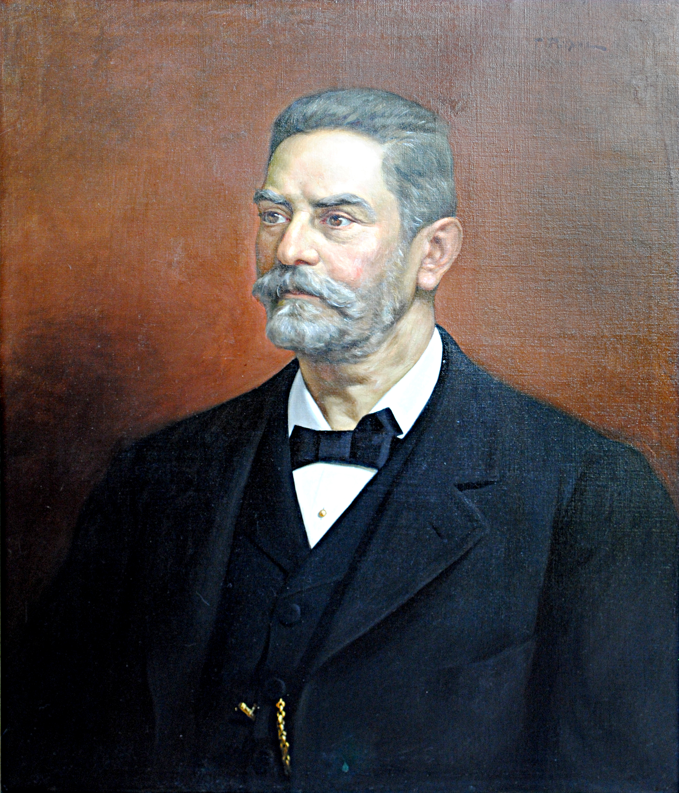 Πορτραίτο ανδρός, Ελαιογραφία σε μουσαμά, 75 x 58 εκ., Ιδιωτική Συλλογή